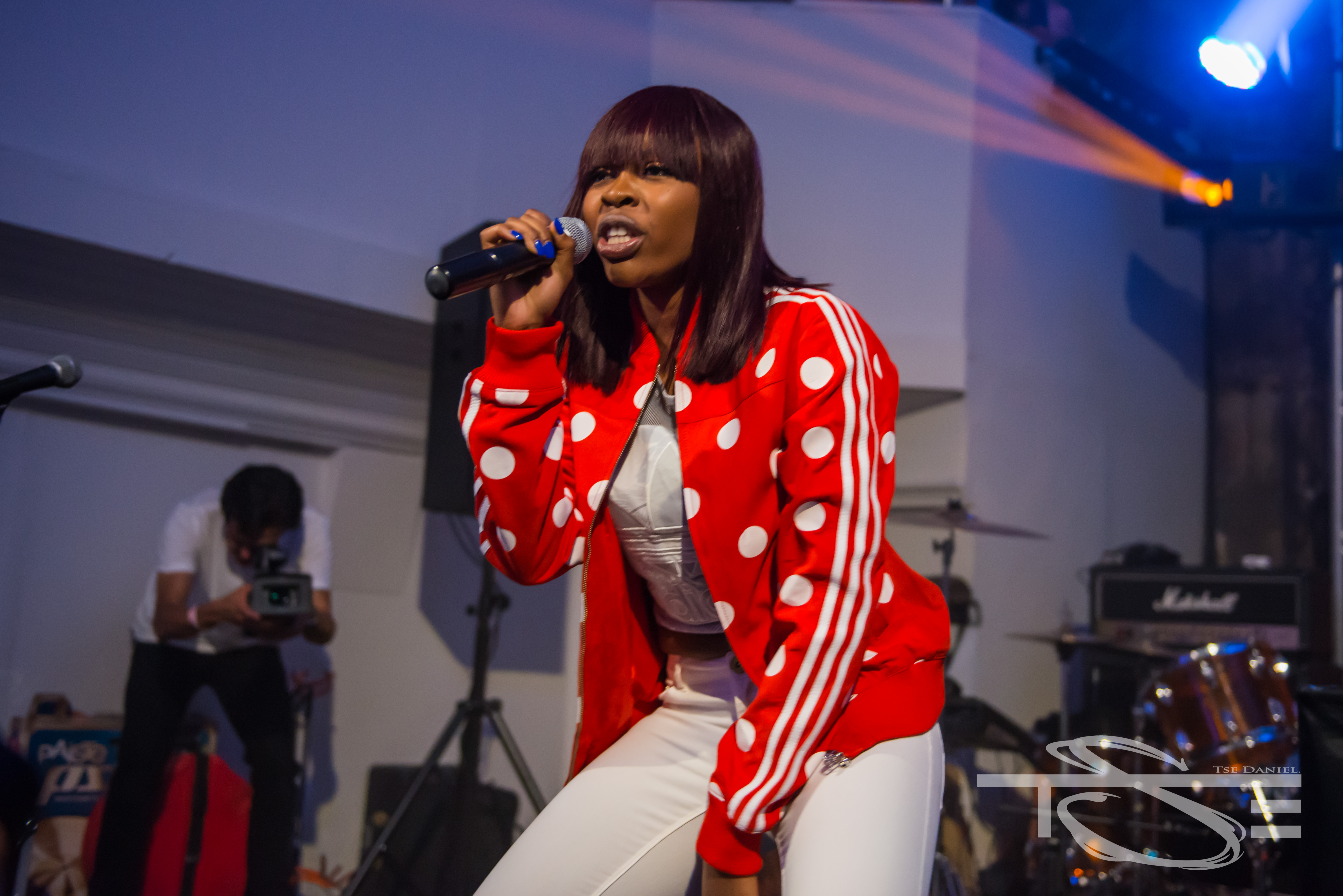 Tink at NXNE June 18 2015 Photography by TSE.